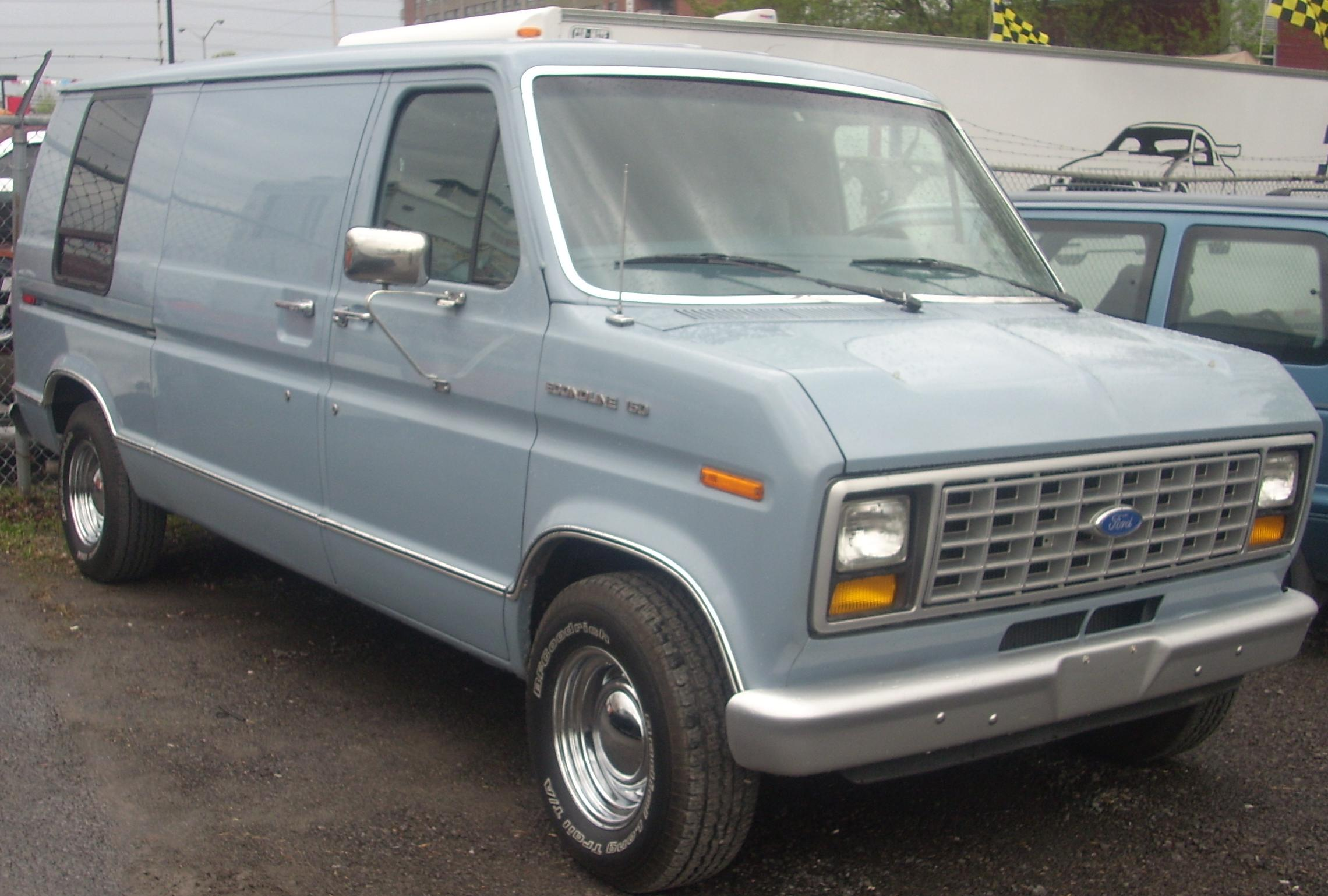 Ford Econoline photographed at the 2009 Sterling Ford Ottawa Auto Show.